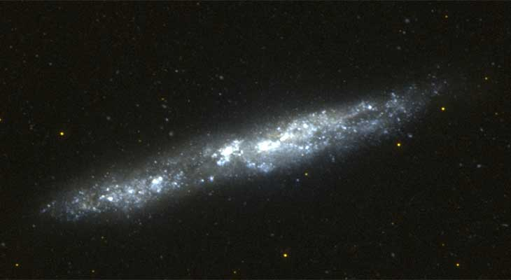 This image of the nearby edge-on Spiral Galaxy NGC 55 was taken by Galaxy Evolution Explorer on September 14, en:2003 during 2 orbits. This galaxy lies 5.4 million light years from the Milky Way galaxy and is a member of the "local group" of galaxies that also includes the Andromeda galaxy (M31), the Magellanic clouds, and 40 other galaxies. The spiral disk of NGC 55 is inclined to our line of sight by approximately 80 degrees and so this galaxy looks cigar shaped. This picture is a combination of Galaxy Evolution Explorer images taken with the far ultraviolet (colored blue) and near ultraviolet detectors, (colored red). The bright blue regions in this image are areas of active star formation detected in the ultraviolet by Galaxy Evolution Explorer. The red stars in this image are foreground stars in our own Milky Way galaxy. Source of image & text Taken on September 11, 2004 from [1]: JPL Galaxies Gallery Spiral Galaxy NGC 55